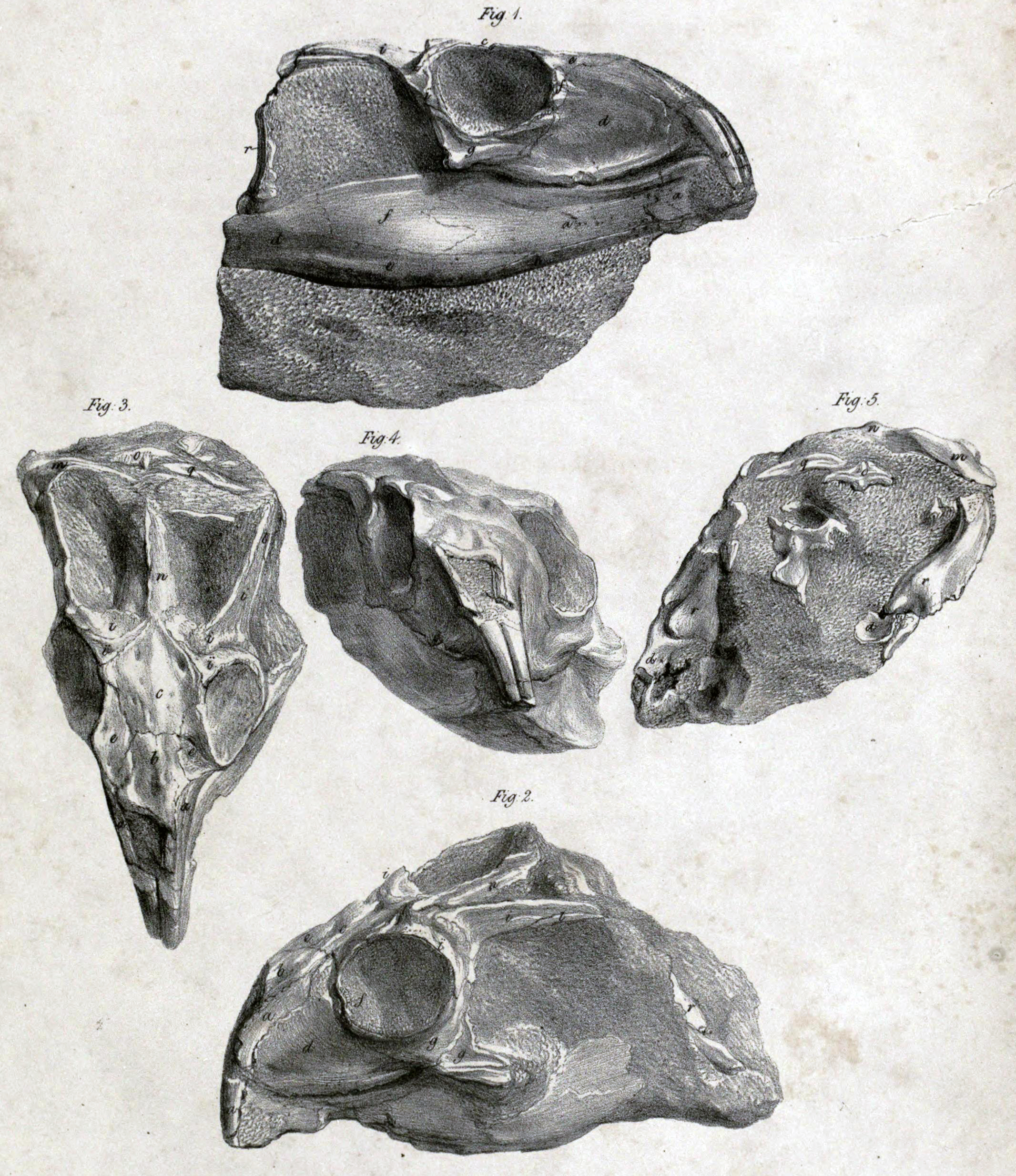 Fig. 151.—Skull of Rhynchosaurus articeps. Triassic (After Owen.)